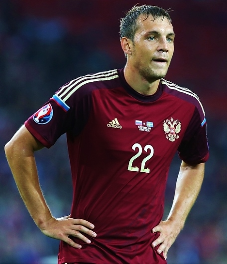 Artem Dzuba